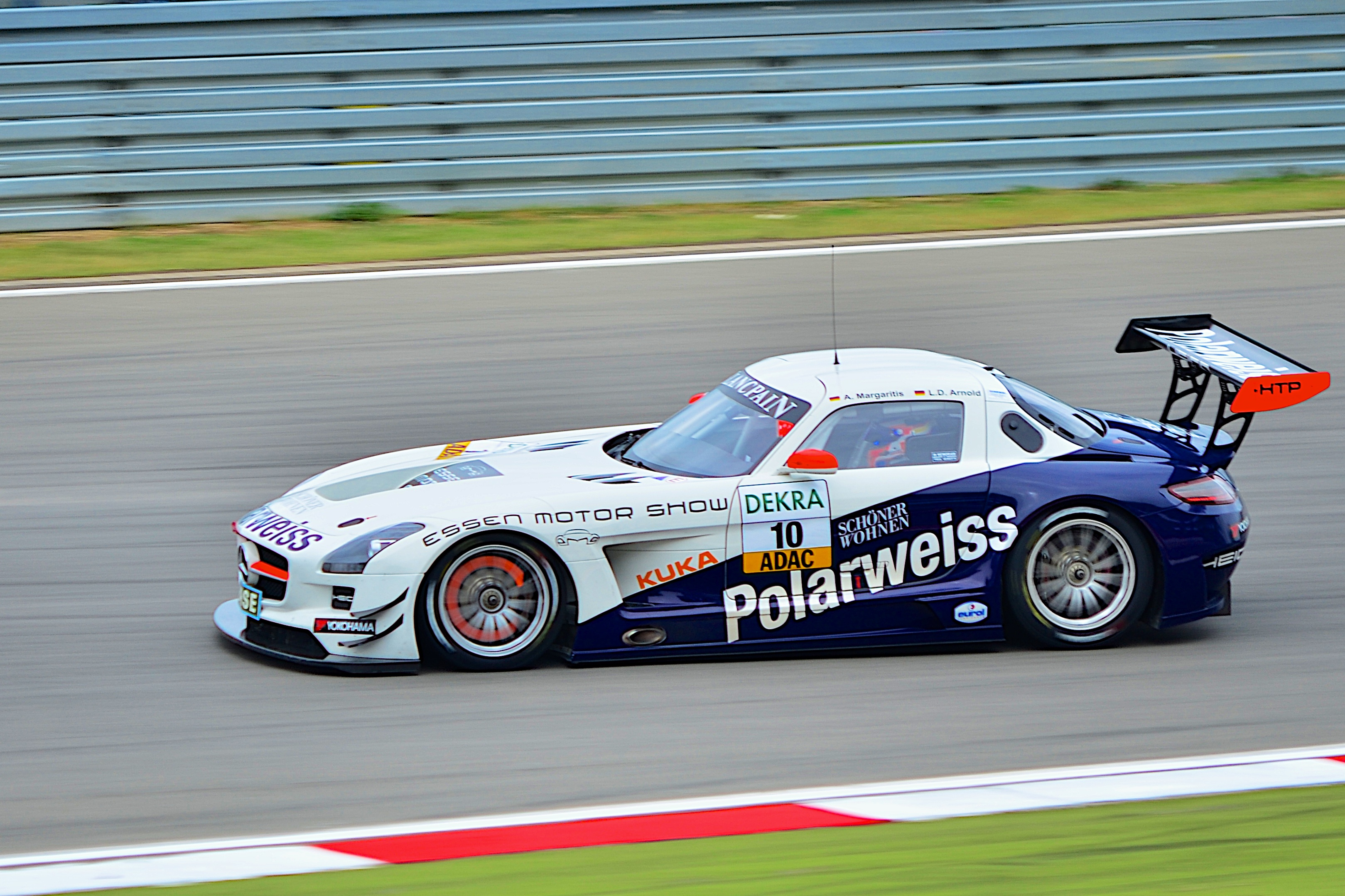 Photo taken during the 13th run of the ADAC GT Masters Championship at the Nürburgring Grand Prix Course. Driver: Lance David Arnold for Heico Motorsport